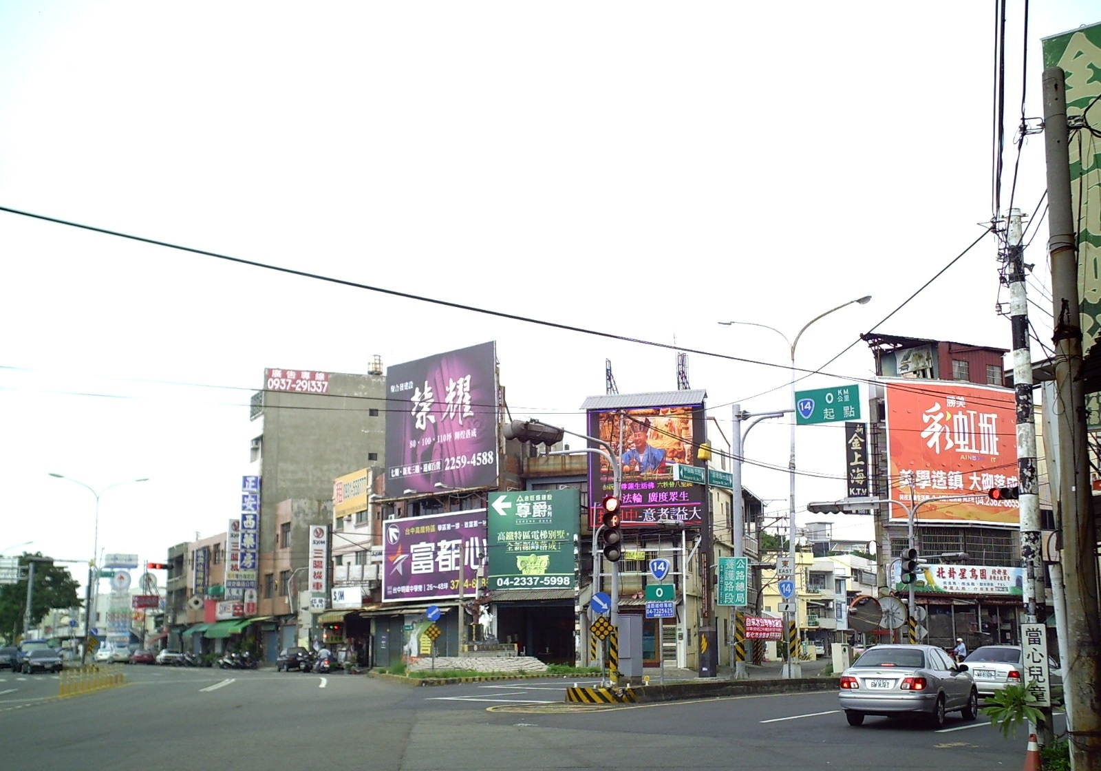 the beginning of Taiwan Provincial Highway 14. On Taiwan Provincial Highway 1, in Changhua City.